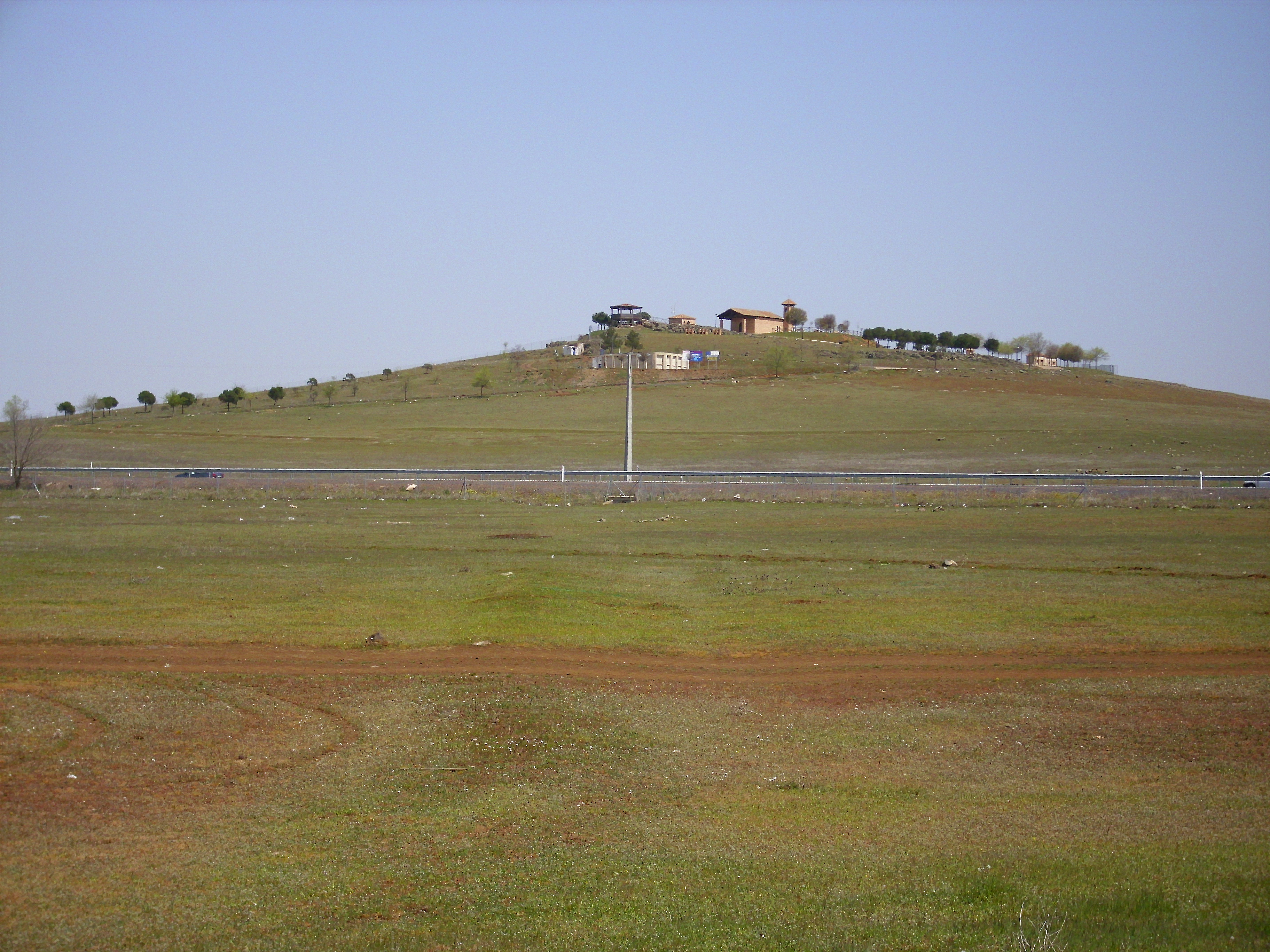 Poblete volcano, Campo de Calatrava, Spain